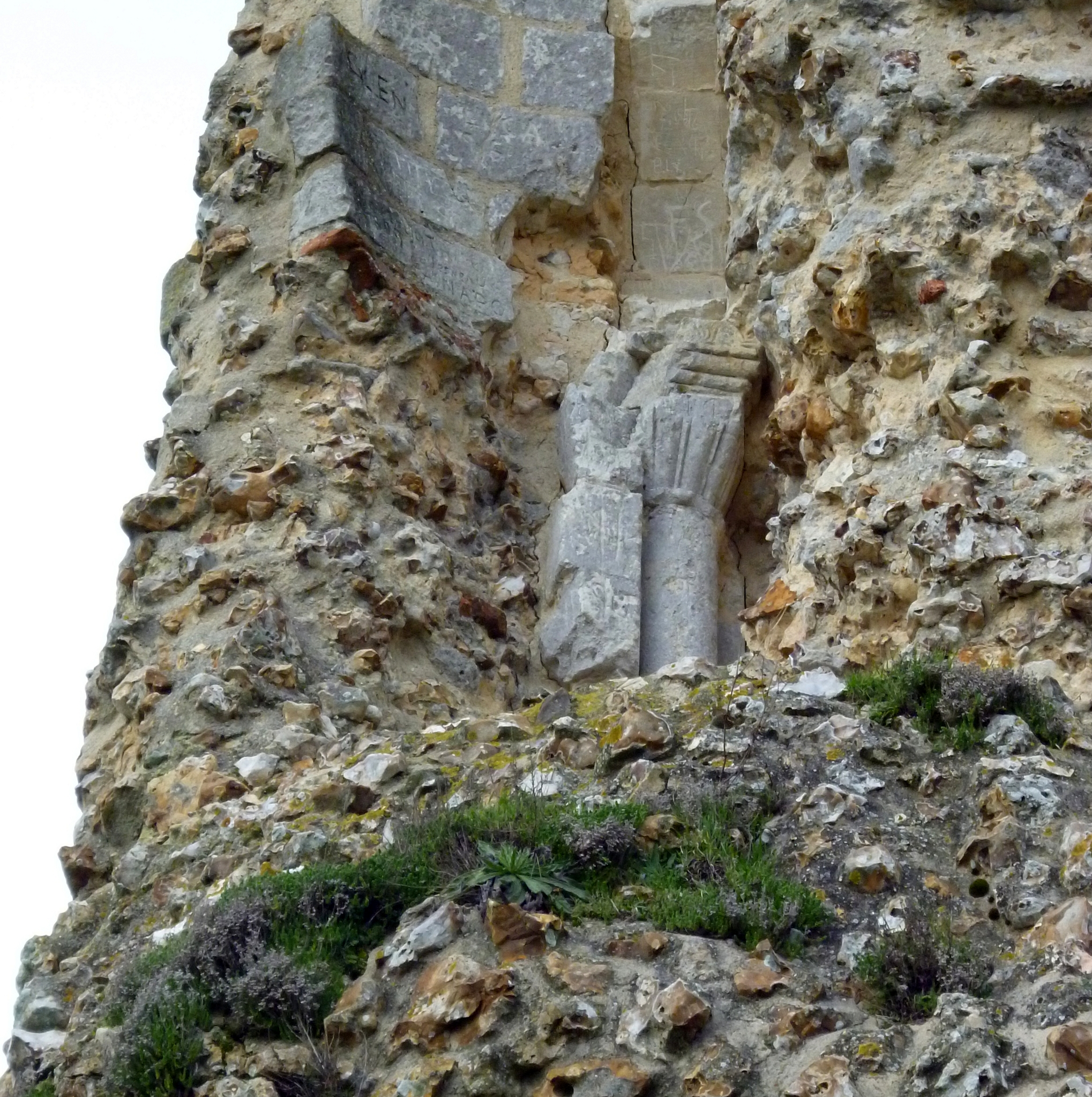 A Romanesque column or rather pilaster in the ruin of the medieval castle of Brionne (Eure, France). It was part of a fireplace.